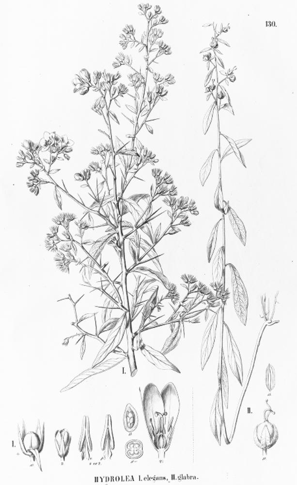 Illustration of Hydrolea elegans (left) and Hydrolea glabra (right)